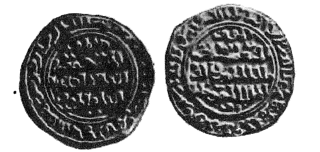 coin of Sheger de-durr Cairo 1250 British museum collection